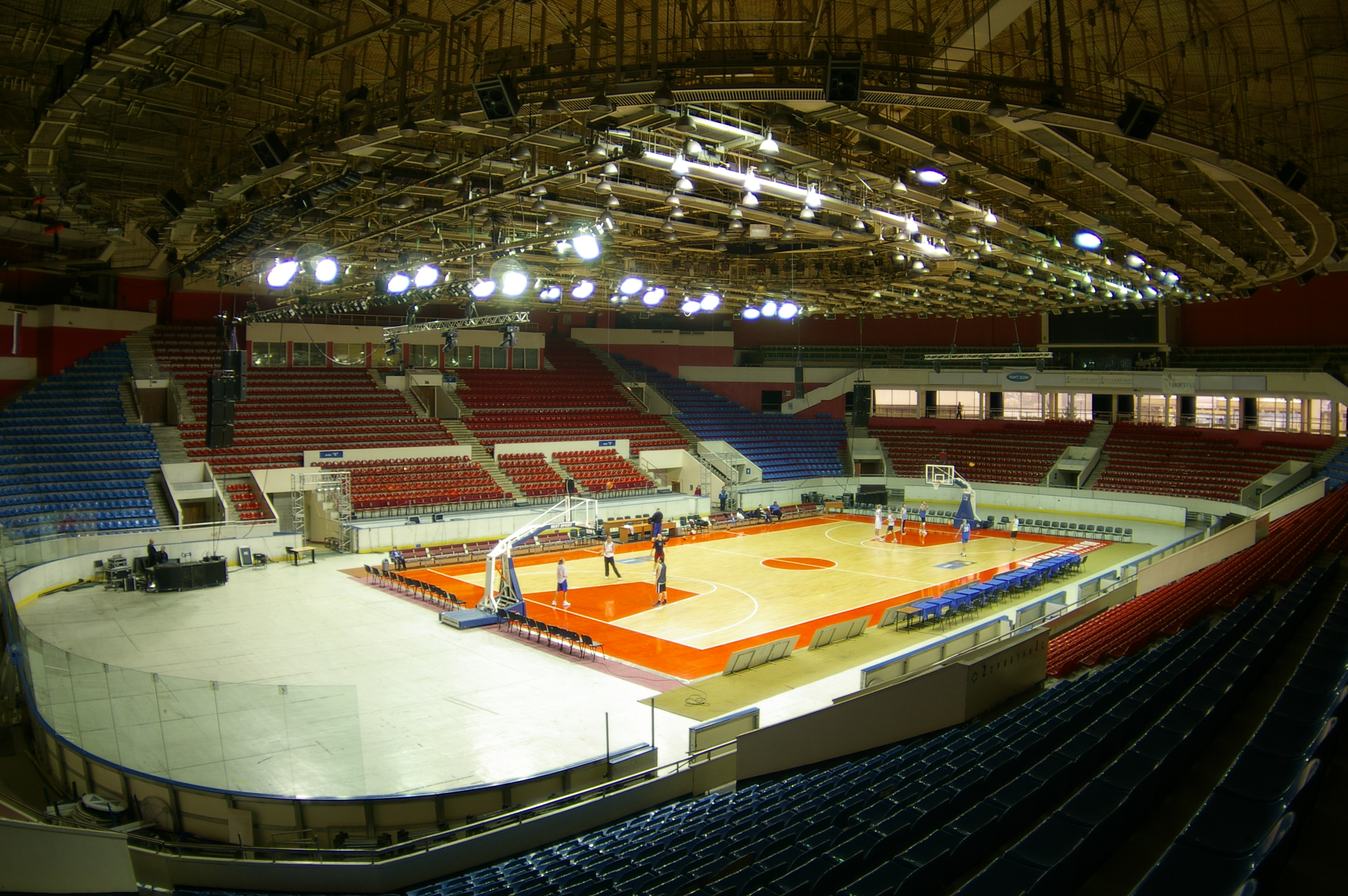 Jubilee Sports Complex, Saint-Petersburg, Russia. Main Arena inside.